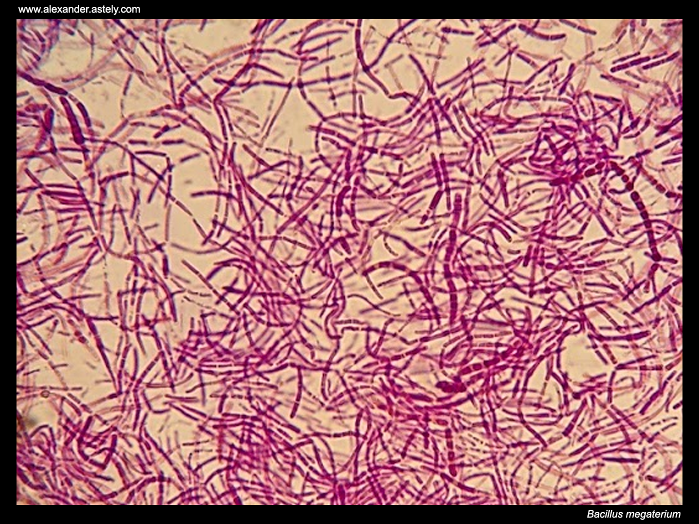 Bacillus megaterium cells coloured with crystal violet & safranin